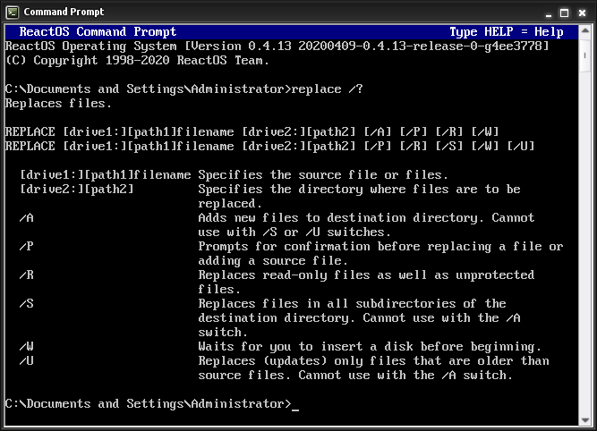 replace command on ReactOS-0.4.13